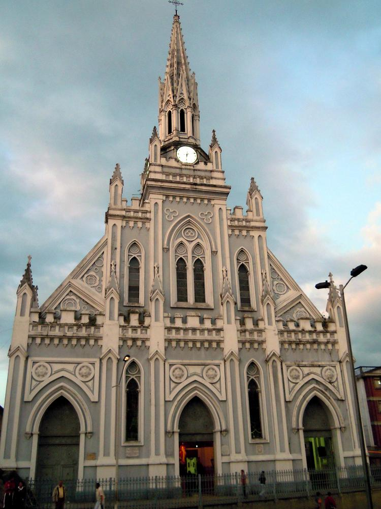 Sacred Heart of Jesus Church in Manizales, Caldas, Colombia.